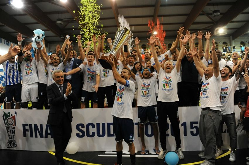 Pescara C5 celebrates its first league victory